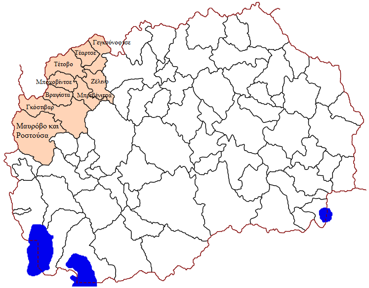 The municipalities of Polog Statistical Region of North Macedonia in Greek language.